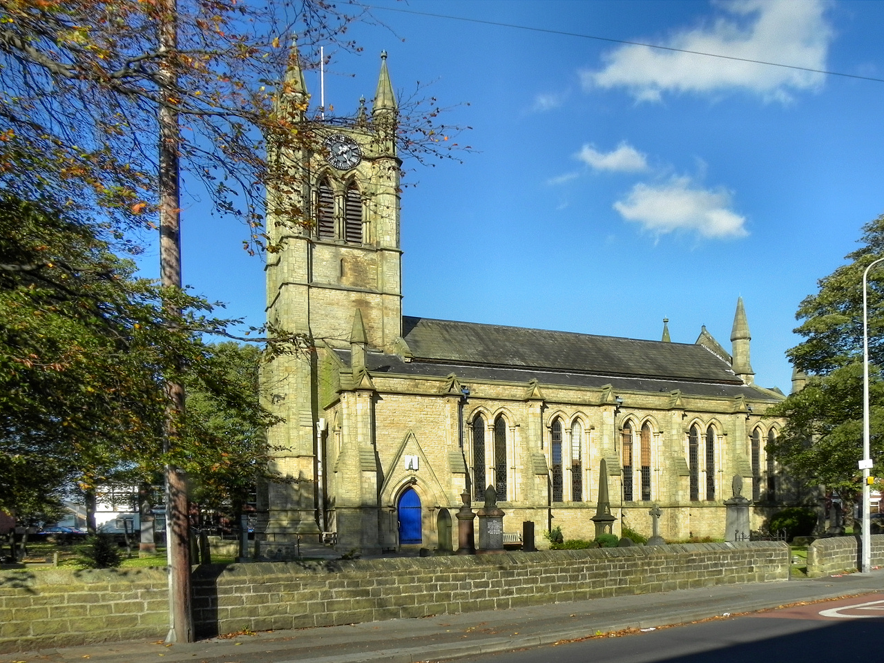 Photograph of St Mark's Church, Bredbury